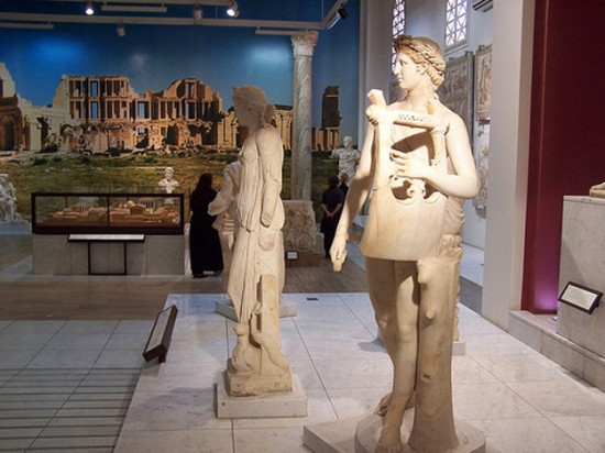 Ancient Roman sculptures inside the Read Castle Museum of Tripoli.